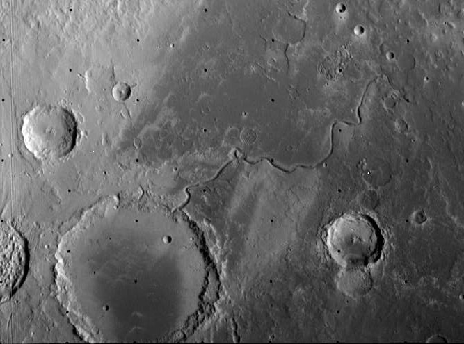 Barsukov crater (lower left) with Silinka Vallis on Mars. Viking 1 image from camera B (366S26). Minus Blue filter was used for this image. Resolution is about 213 m/pixel. Rotated so that approximate north is at top. Emission Angle: 9.9 Incidence Angle: 64.8 Latitude: 9.5 Longitude: 331.7 Phase Angle: 61.5